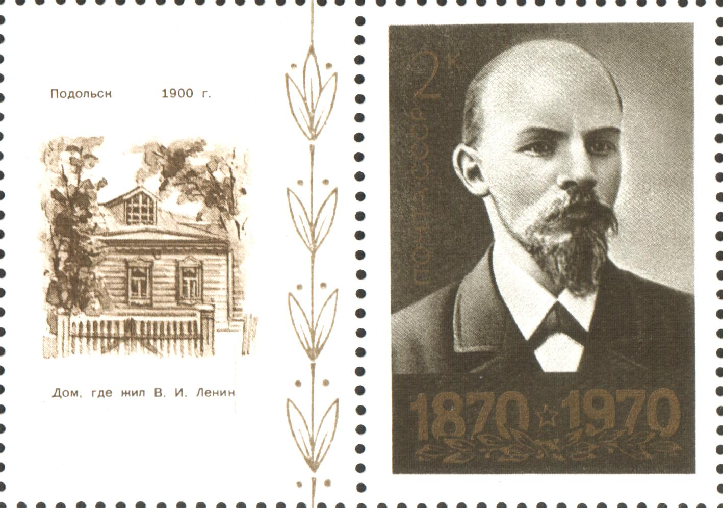 USSR stamp: Lenin, 1900 (Photo by Y. Mebius) with 16 labels Beginning of Revolutionary Activity (see Lenin, 1900). Series: Centenary of Birth of Vladimir Lenin (1870-1924). Portraits of Lenin